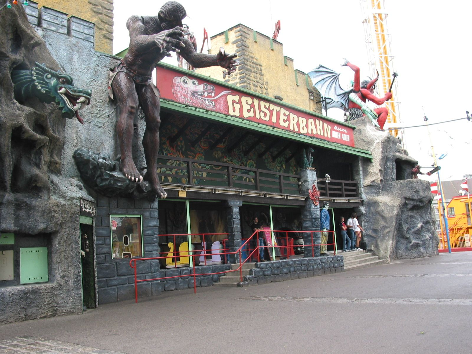 Ghost train in Vienna selfmade photo